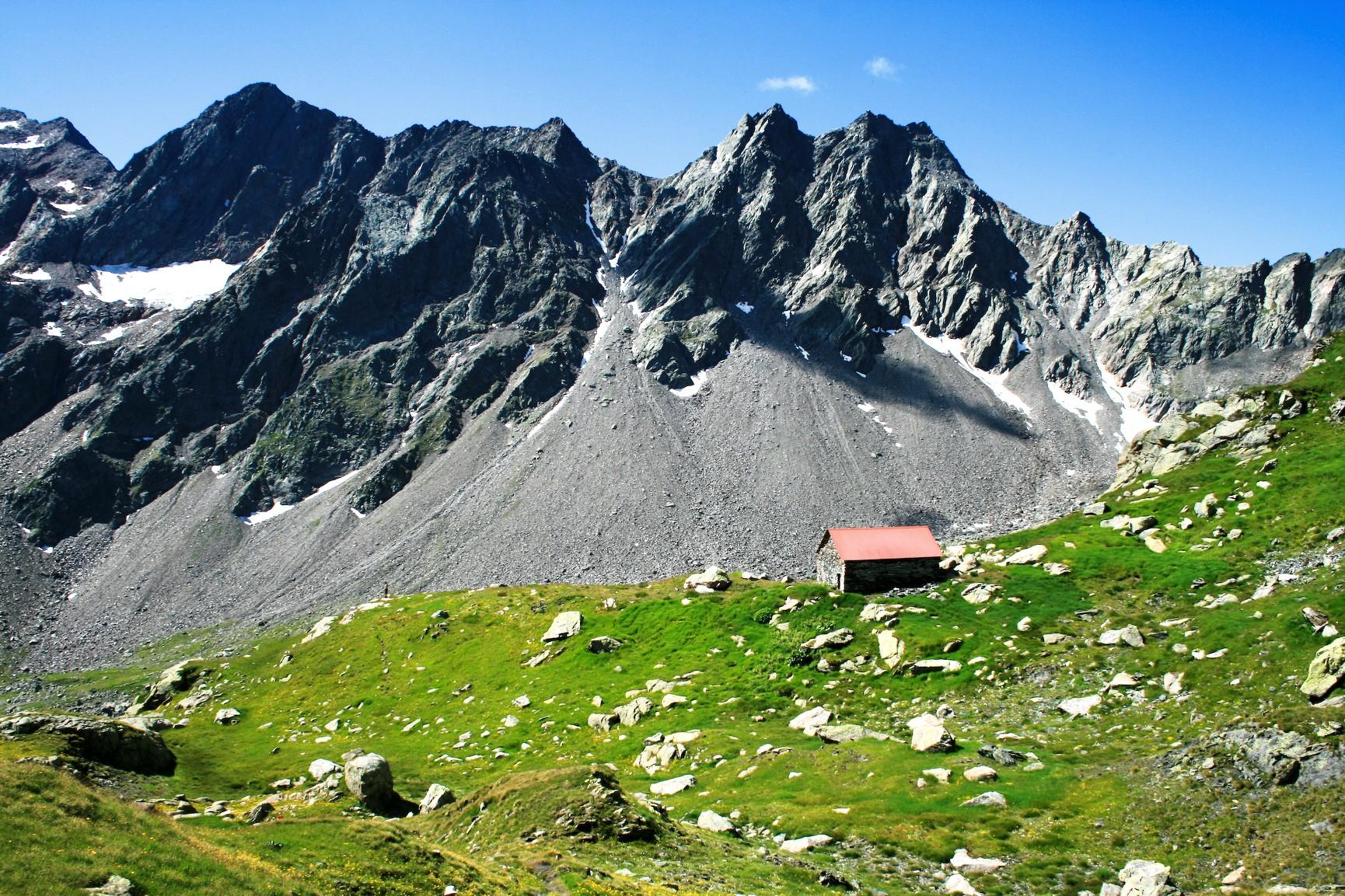 Campo Tentia chain from east, near lago di Morghirolo (main summit not visible on the photo)